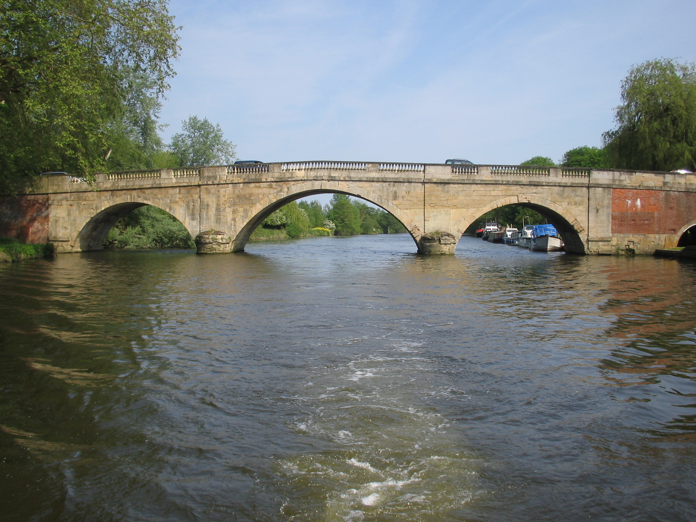 Shillingford Bridge (upstream side) carrying the A329 across the River Thames